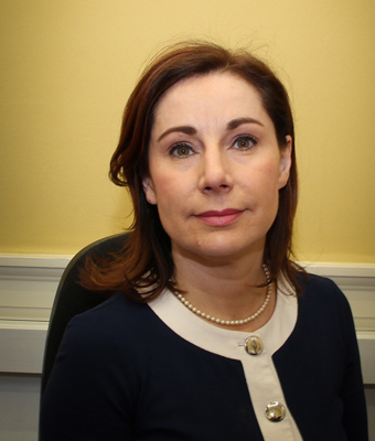 Official House of the Oireachtas photograph of Josepha Madigan